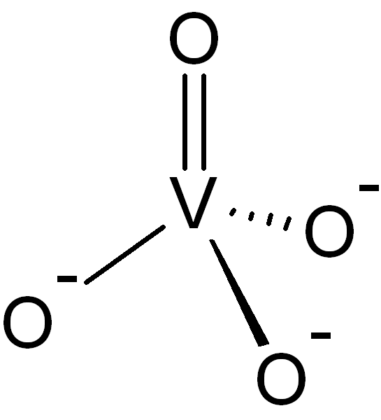 A diagram of the vanadate ion